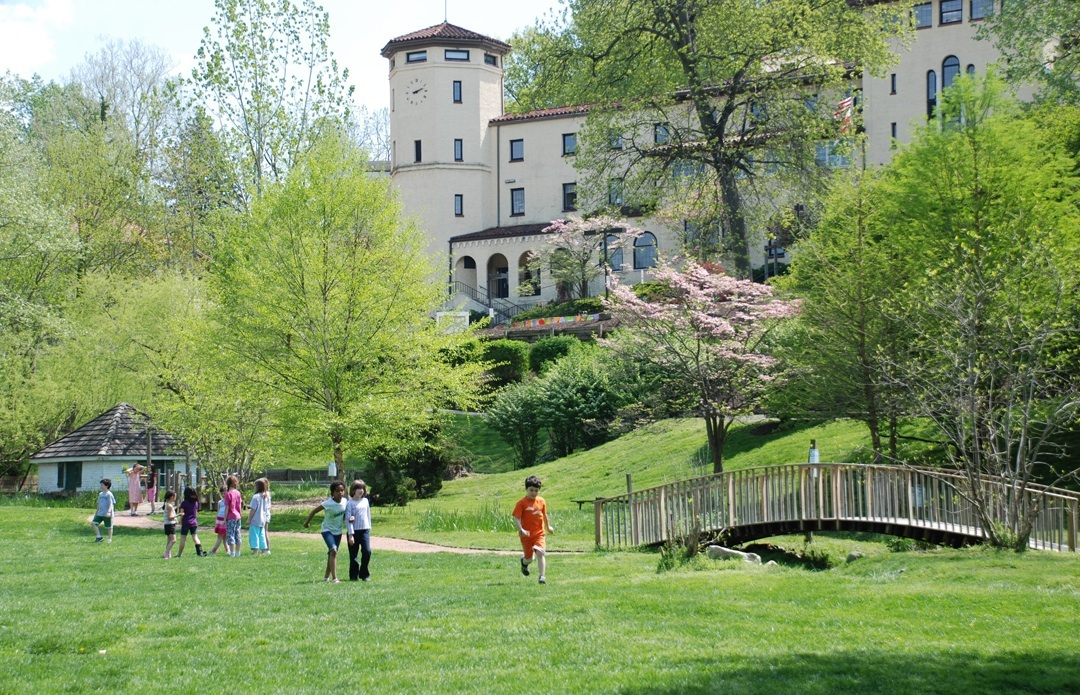 Lowell School Campus, which is listed on the National Register of Historic Places as the Marjorie Webster Junior College Historic District.